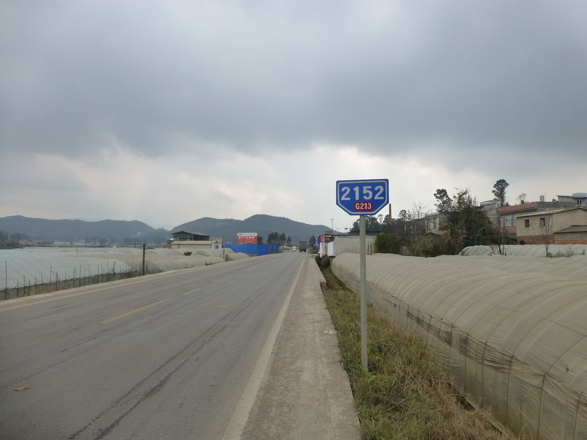 Along China National Highway 213 (G213) south of Kunyang, Jinning County, Yunnan